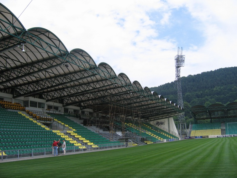 Stadium Pod Dubnom, Zilina